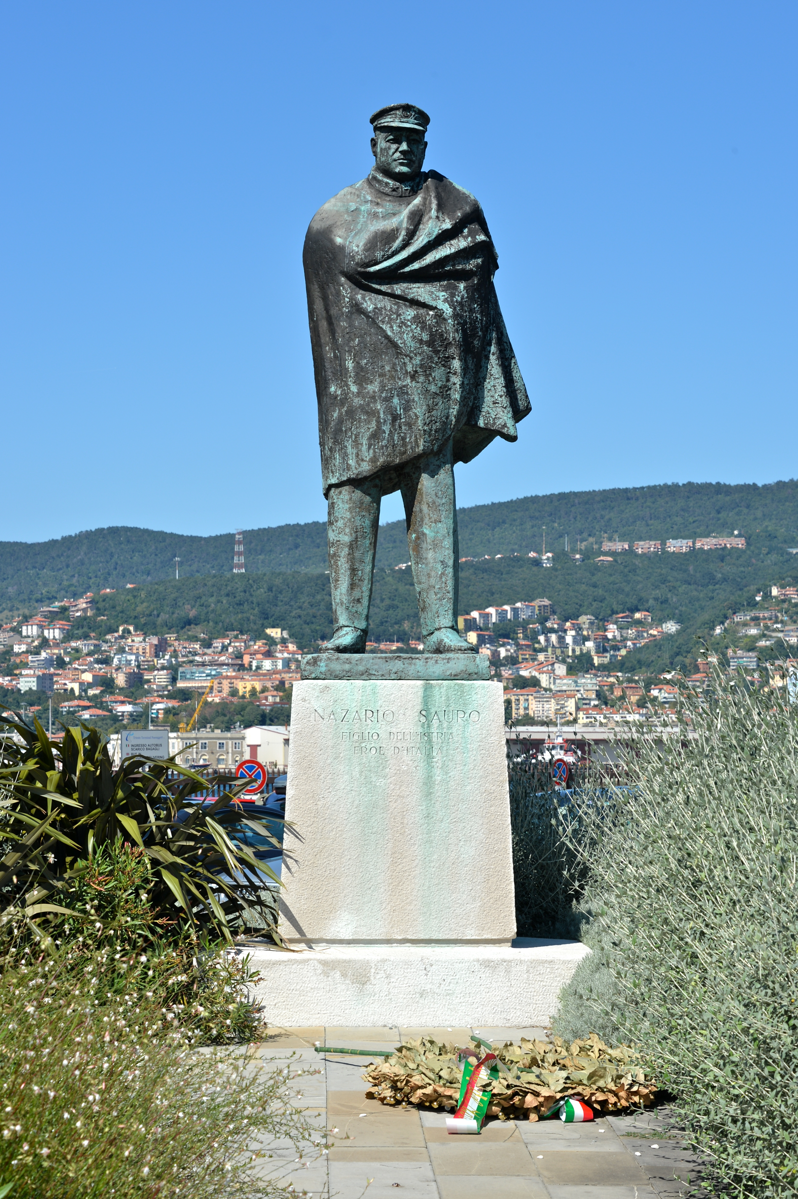 Monument of the Italian heroe Nazario Sauro (1880-1916), Riva Nazario Sauro, city of Trieste, province of Trieste, Friuli-Venezia Giulia / Italy / EU